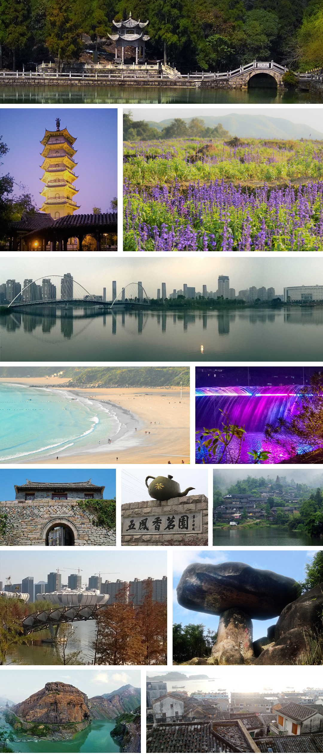 Cangnan Brief